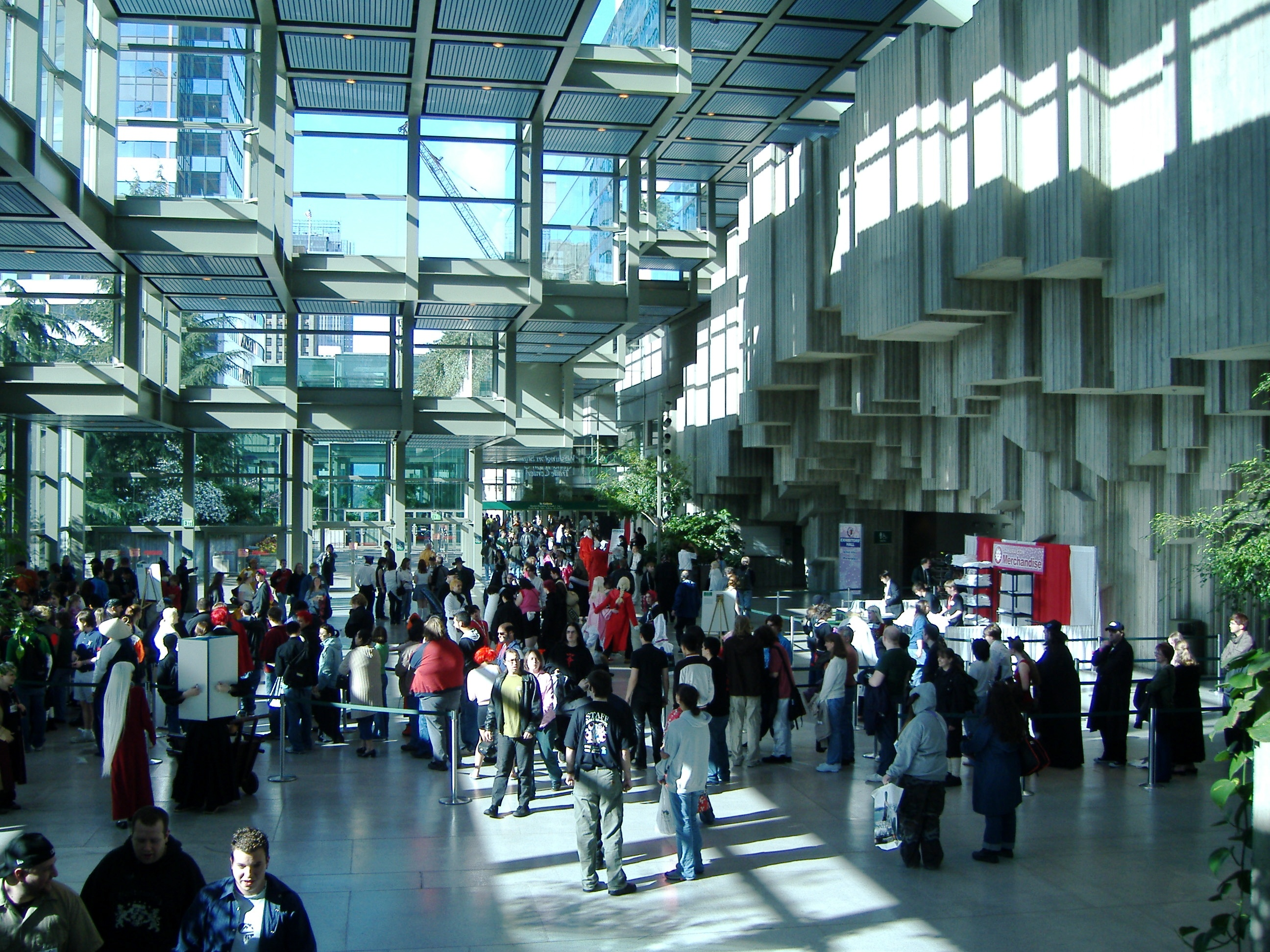 Sakura-Con 2006's mainspace.